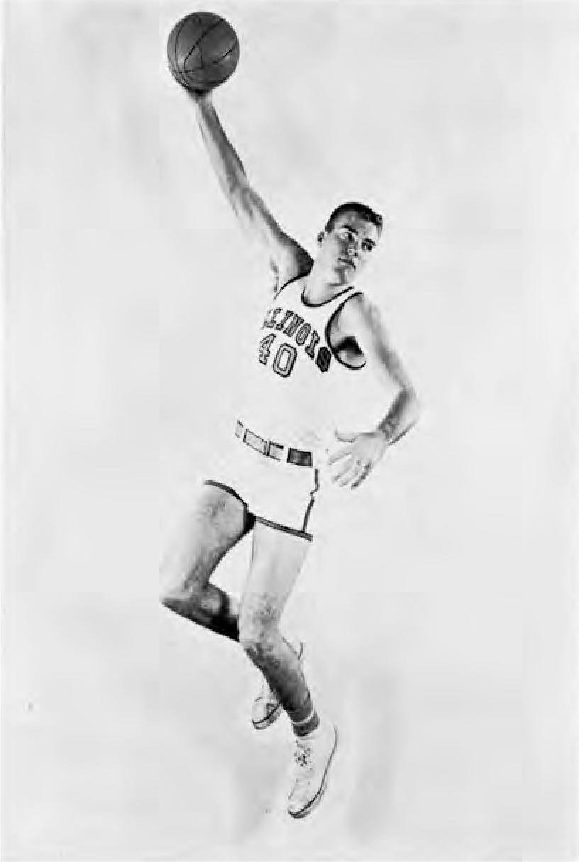 An official program for the Mideast regional round of the 1963 NCAA University Division Basketball Tournament, which was held March 15–16, 1963 in Michigan State University's Jenison Fieldhouse in East Lansing, Michigan